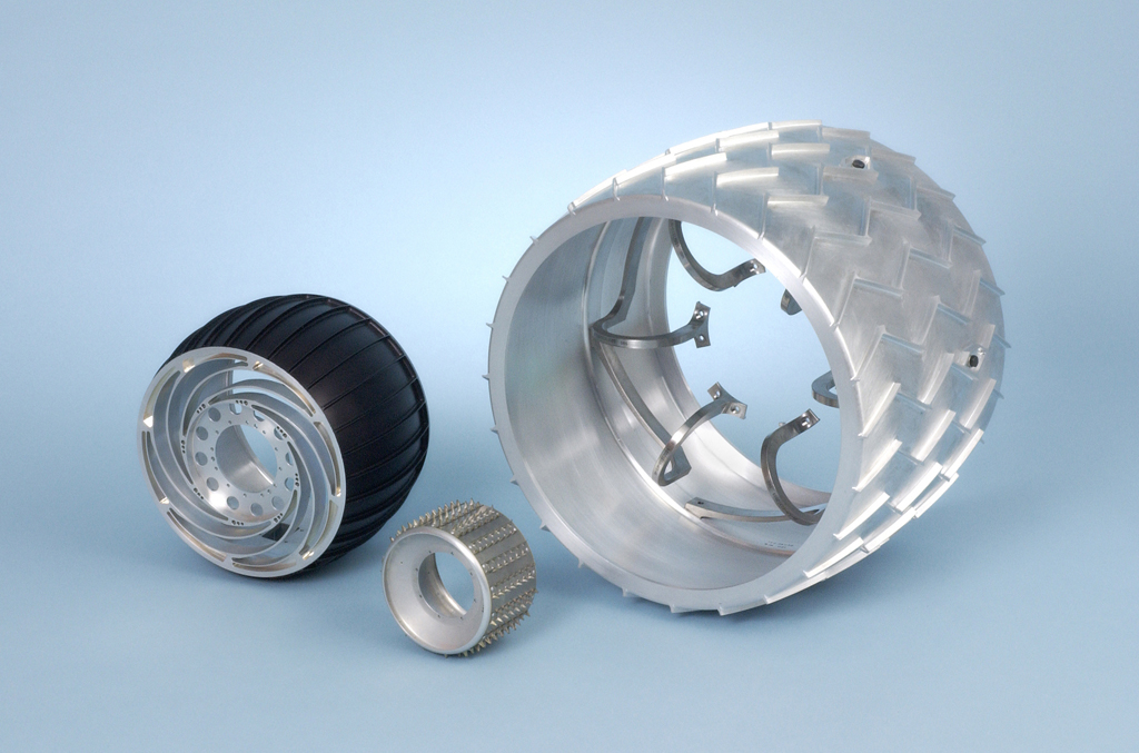 Mars rover wheels sizes: Mars Exploration Rover (MER), Sojourner (Mars Pathfinder mission) and Mars Science Laboratory (from left to right)